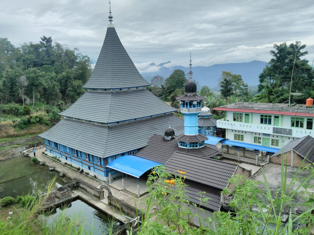 Masjid Bingkudu 2019